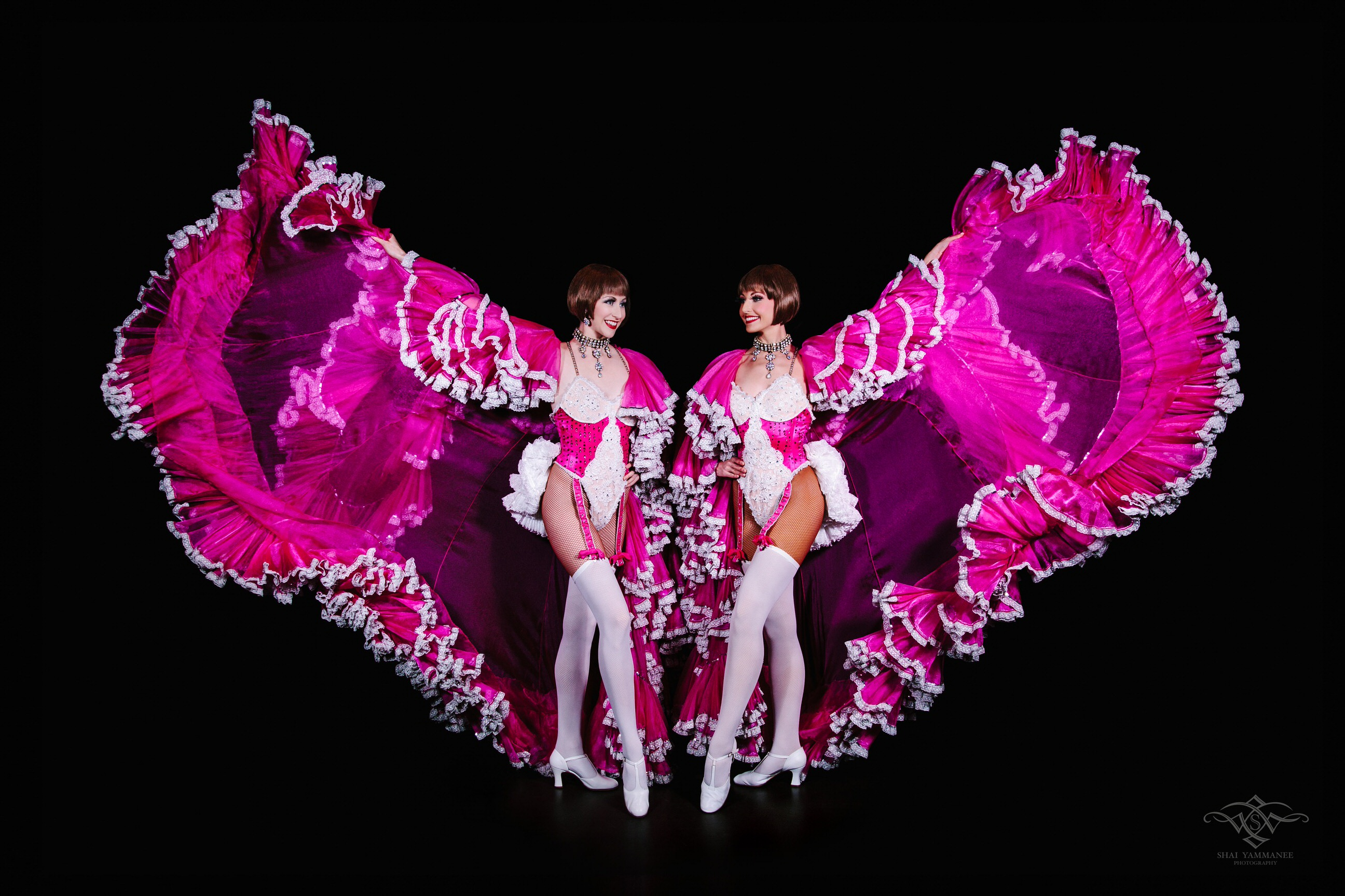 The wonderful Dolly Sisters from the Titanic Section of Jubilee! (performed by Jessica Lane & Julie Taber). These costumes were created be Pete Menefee